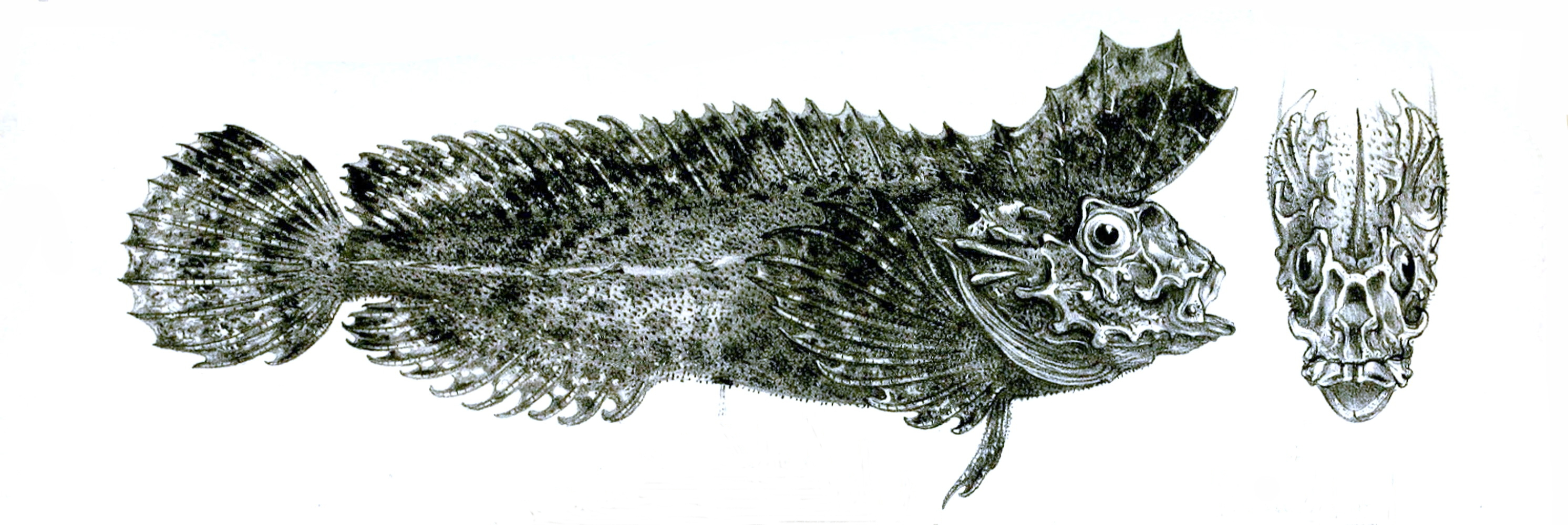 Aploactisoma milesii